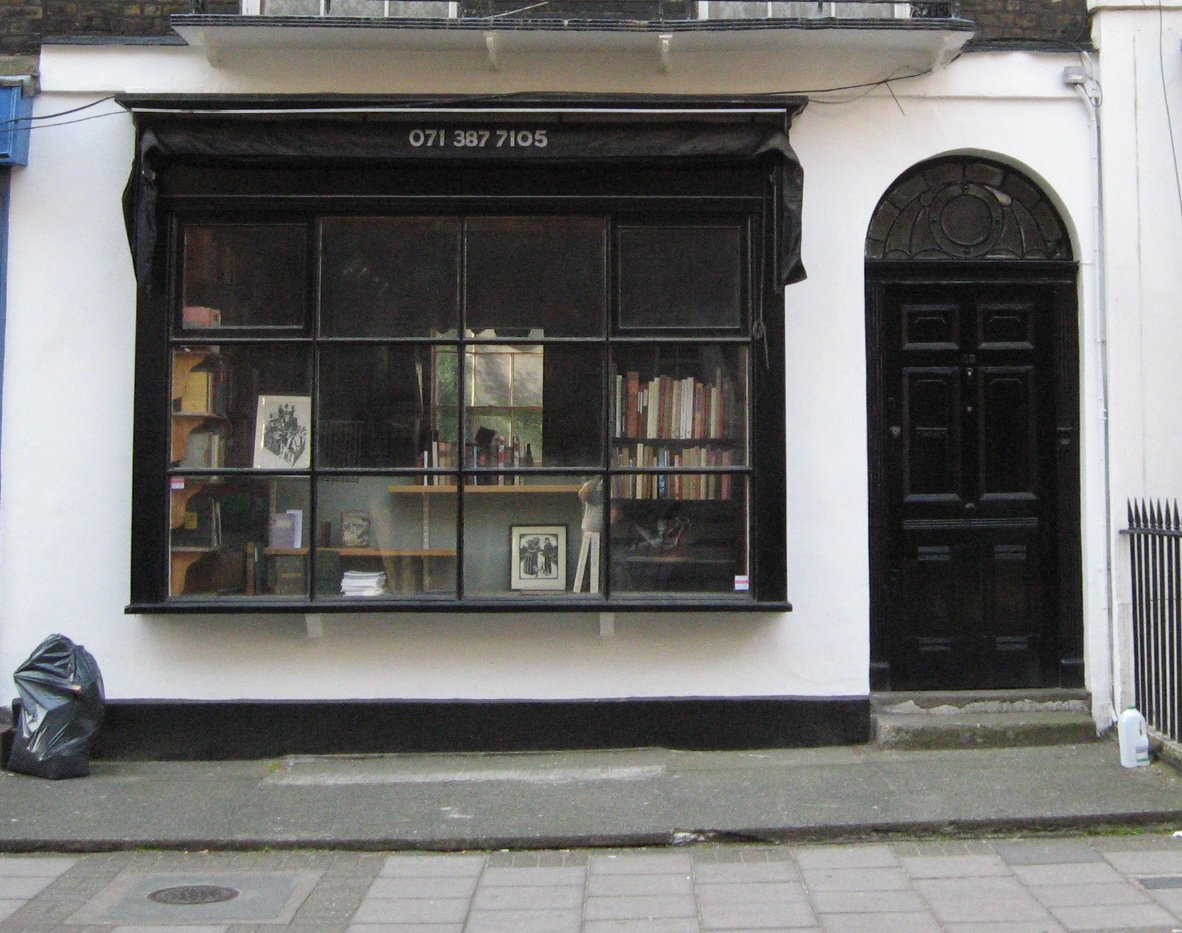 Exterior of Collinge & Clark bookshop in Bloomsbury, London